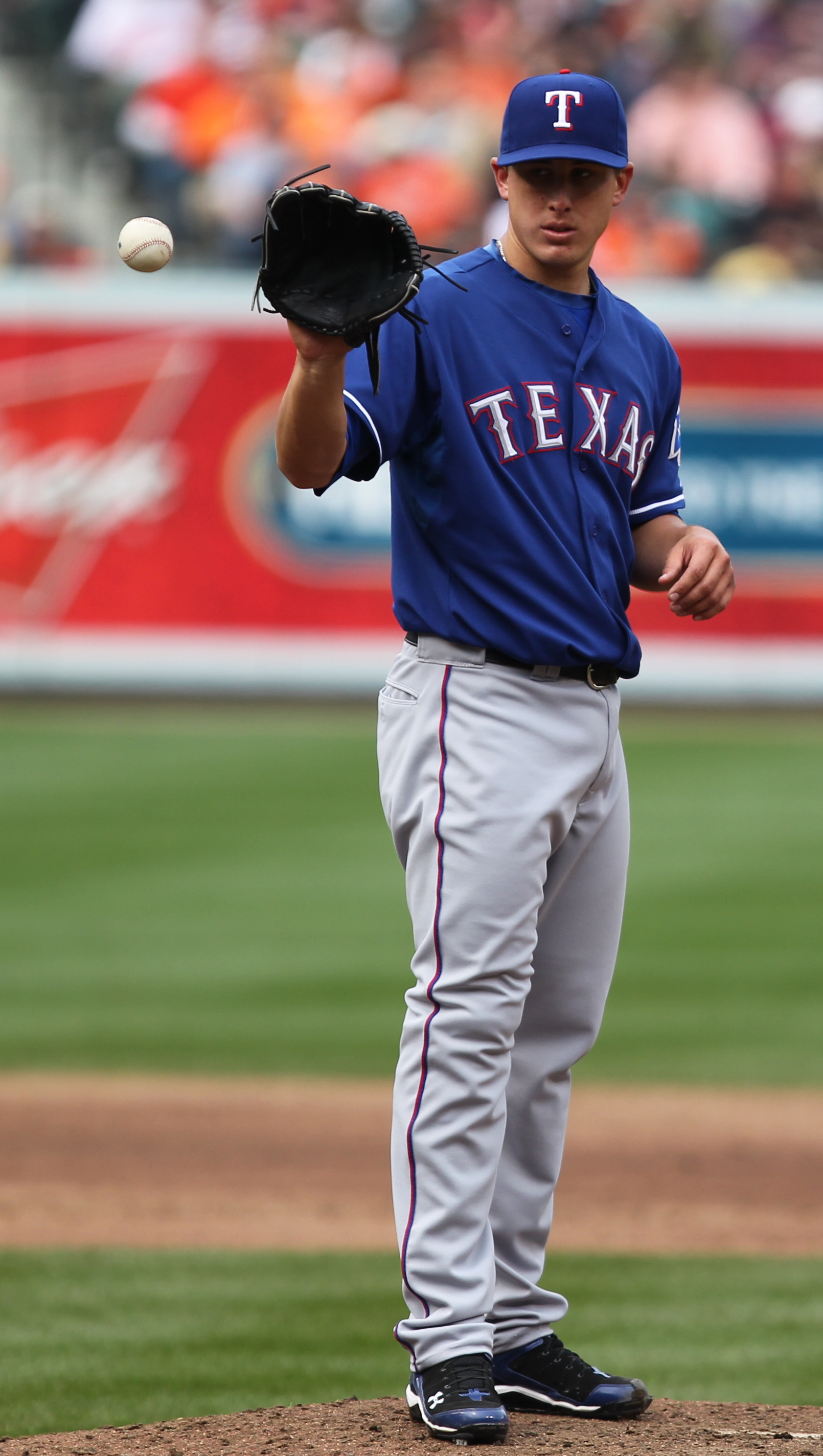 Derek Holland pitching against the Baltimore Orioles.